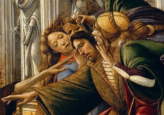 Botticelli made this painting on the description of a painting by Apelles, a Greek painter of the Hellenistic Period. Apelles' works have not survived, but Lucian recorded details of one in his On Calumny: On the right of it sits Midas with very large ears, extending his hand to Slander while she is still at some distance from him. Near him, on one side, stand two women—Ignorance and Suspicion. On the other side, Slander is coming up, a woman beautiful beyond measure, but full of malignant passion and excitement, evincing as she does fury and wrath by carrying in her left hand a blazing torch and with the other dragging by the hair a young man who stretches out his hands to heaven and calls the gods to witness his innocence. She is conducted by a pale ugly man who has piercing eye and looks as if he had wasted away in long illness; he represents envy. There are two women in attendance to Slander, one is Fraud and the other Conspiracy. They are followed by a woman dressed in deep mourning, with black clothes all in tatters—she is Repentance. At all events, she is turning back with tears in her eyes and casting a stealthy glance, full of shame, at Truth, who is slowly approaching.it=L'opera è ispirata al celebre perduto dipinto di Appelle descritto dalli scrittore greco Luciano nel "De Calumnia" e da Leon Battista Alberti nel "De Pictura". La scena raffigura, da destra, il Re Mida mal consigliato dal Sospetto e dall'Ignoranza, il Livore come un uomo barbato col cappuccio, la Calunnia - con una face - che trascina il calunniato, la Frode e l'Insidia dietro di lei, e la Penitenza come una vecchia in abiti laceri che guarda alla Verità nuda e con lo sguardo levato al cielo.